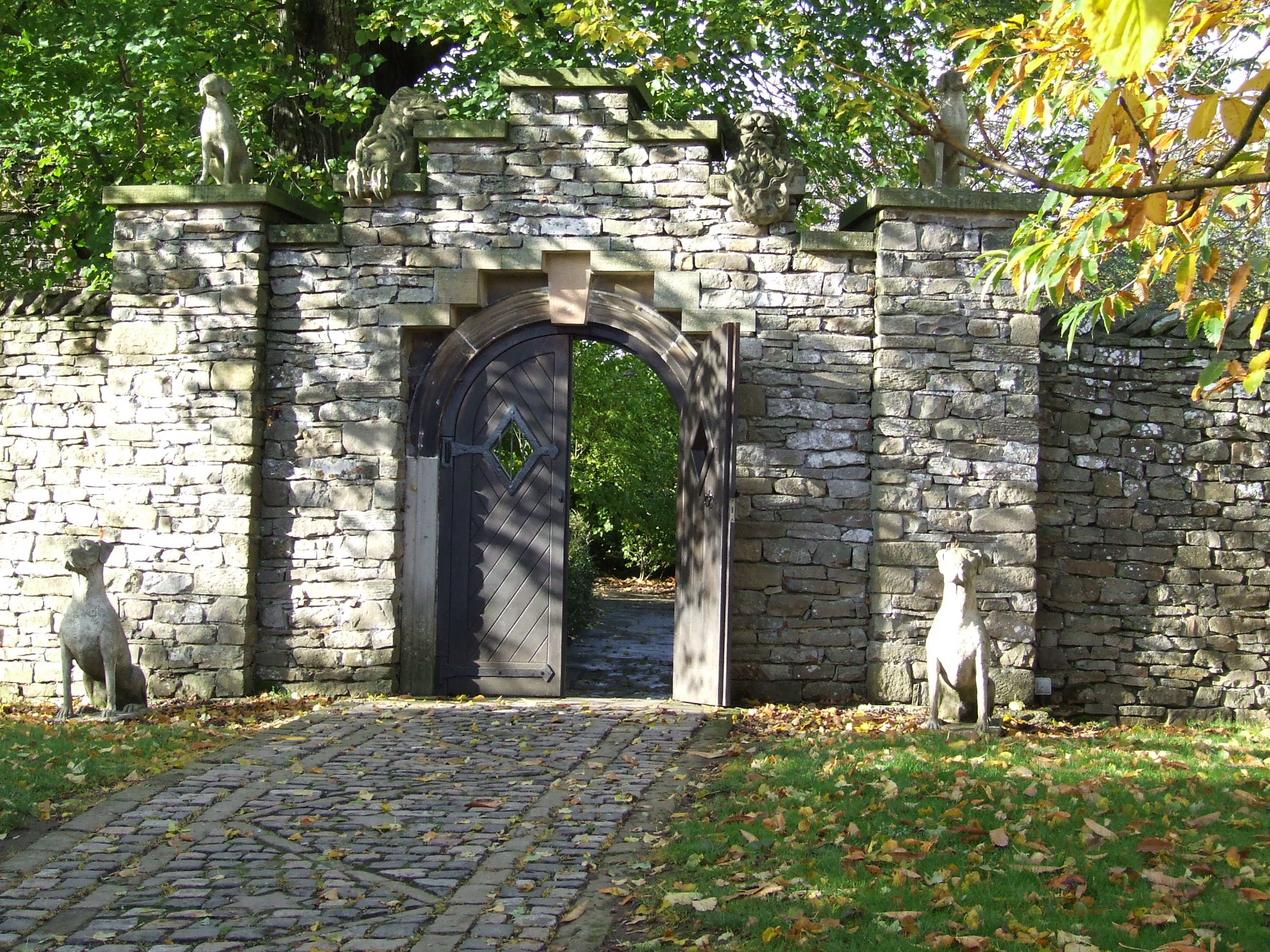 Entrance Tower, Forbidden Corner, Yorkshire, England